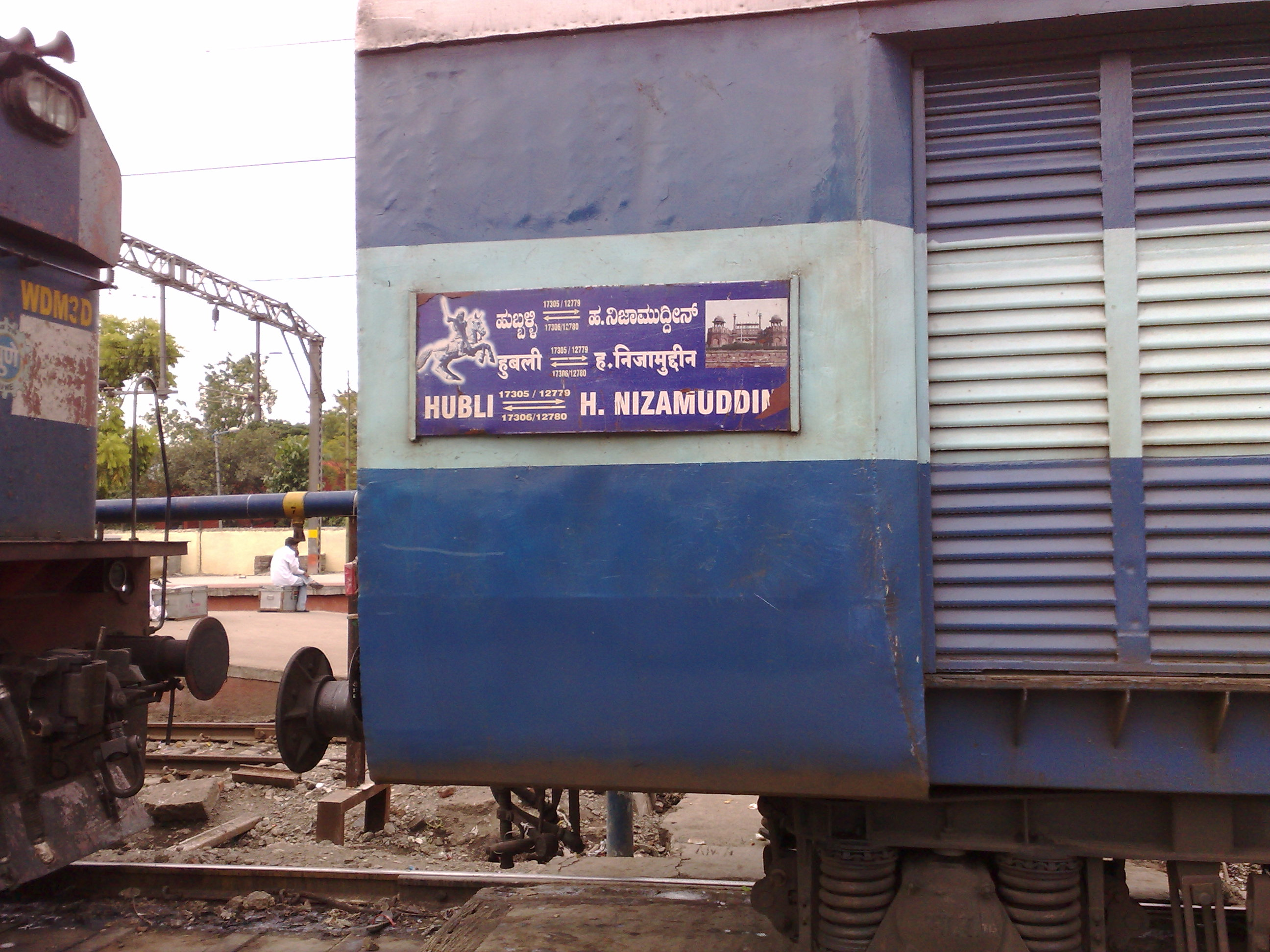 17305 Hubli Link Express